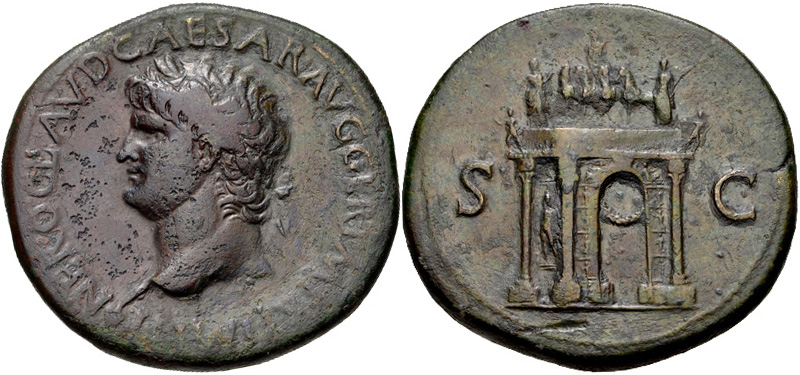 Nero. AD 54-68. Æ Sestertius (36mm, 26.67 g, 6h). Lugdunum (Lyon) mint. Struck circa AD 65. IMP NERO CAESAR AVG PONT MAX TRP PP, Laureate head left, globe at point of bust / SC, Triumphal arch surmounted by statuary group of Nero in quadriga, escorted by Victory and Pax and flanked by soldiers; statue of Mars in niche on side of arch. RIC I 393; WCN 414.